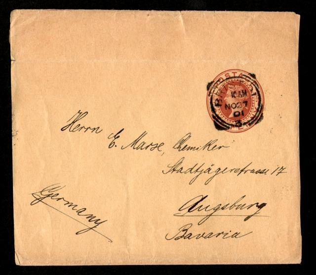 wrapper used to send newspapers issued by Royal Mail and used in 1901